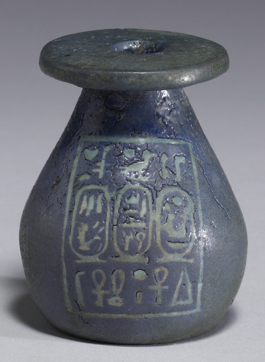 Royalty of the 18th Dynasty commissioned luxury goods in glazed faience and glass. Vessels bearing royal names could have been reserved for royal use or given as gifts to worthy subjects or visitors to the court. This vase contains the names of King Amenophis (Amenhotep) III and Queen Tiye. This small vase was once a part of the MacGregor collection. The vessel's shape imitates a bag or a sack. It was a popular shape during the 18th Dynasty in pottery, stone, painted wood (to imitate stone), as well as faience. The bottom of the vessel is flat allowing it to stand freely on a flat surface. The flat top of the vessel could have originally been closed by a similarly shaped flat lid, as is seen in many examples dating to the 18th Dynasty. The faience most probably incorporates cobalt mixed with copper for the rich, dark-blue color. Before the 18th Dynasty, blue was produced with copper, however, during the 18th Dynasty cobalt mixed with copper was introduced. Cobalt is not attributable to any region or site from the time of Amenophis (Amenhotep) III. The vessel shows a dark residue on the inside. Although chemical analysis has not yet been performed to determine what kind of substance the vessel contained, it is possible that it originally contained some kind of expensive cosmetic, possibly kohl, oil, or perfume.